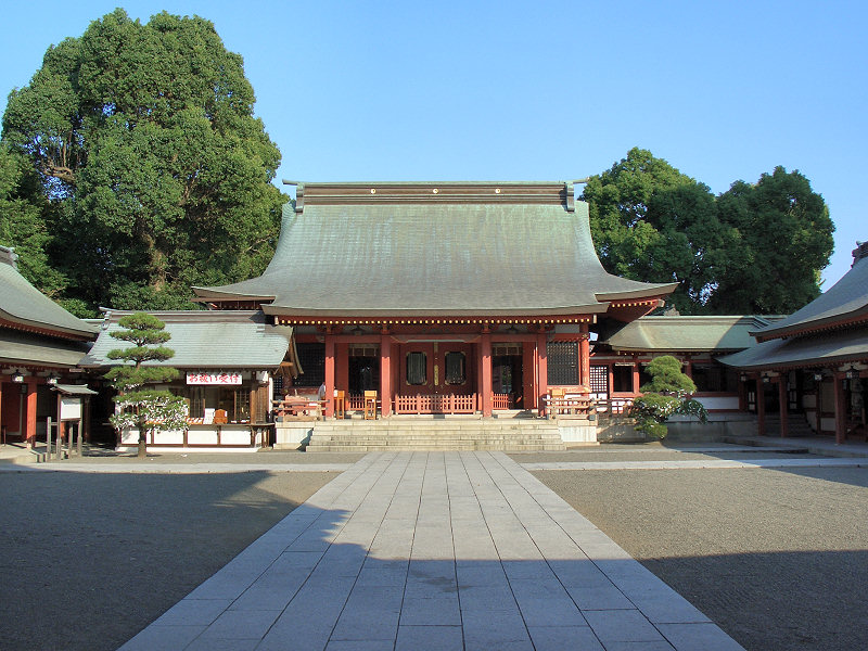 Fujisaki-hachimangu Shinto Shrine, Kumamoto City, Japan